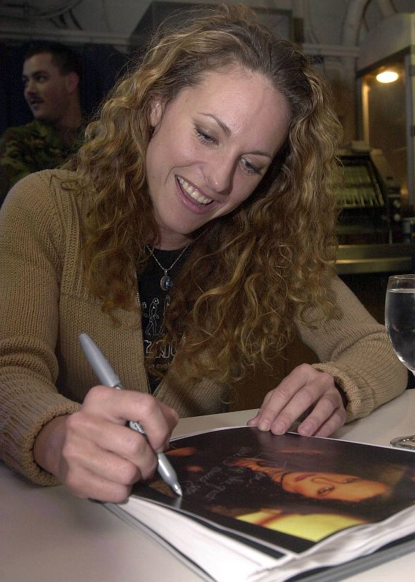 Jerri Manthey of the hit television show “Survivor,” signs autographs and talks to crew members aboard the nuclear powered aircraft carrier USS Nimitz (CVN 68).